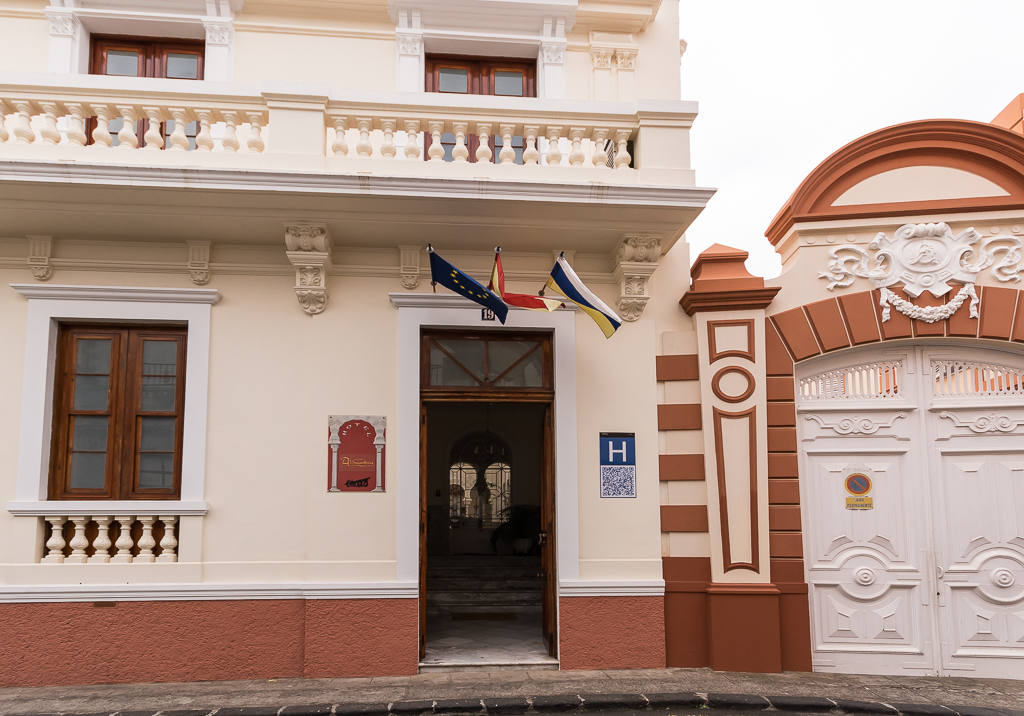 La Orotava, Tenerife.